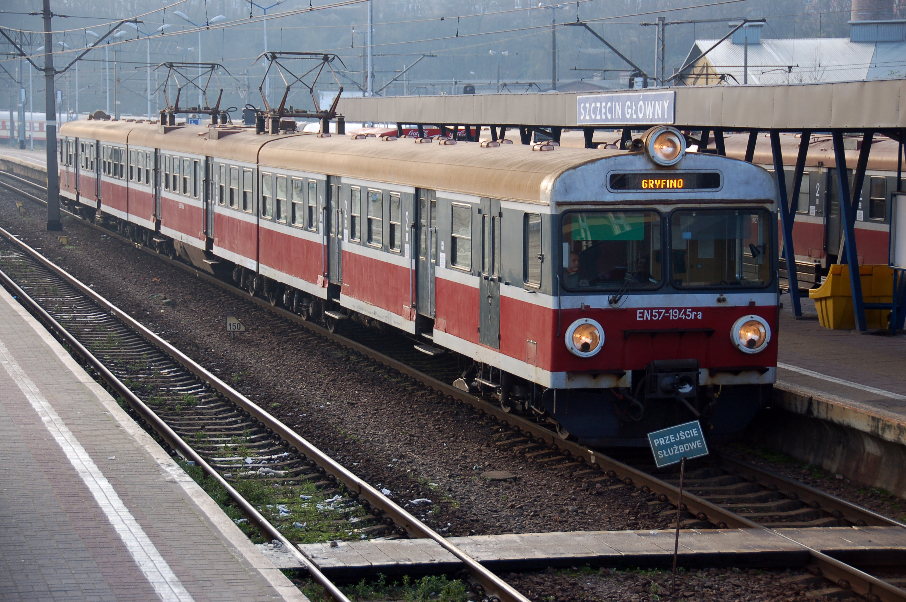 Stettin central train station